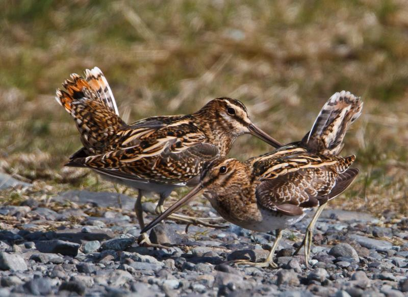 Two Common Snipes in Iceland.